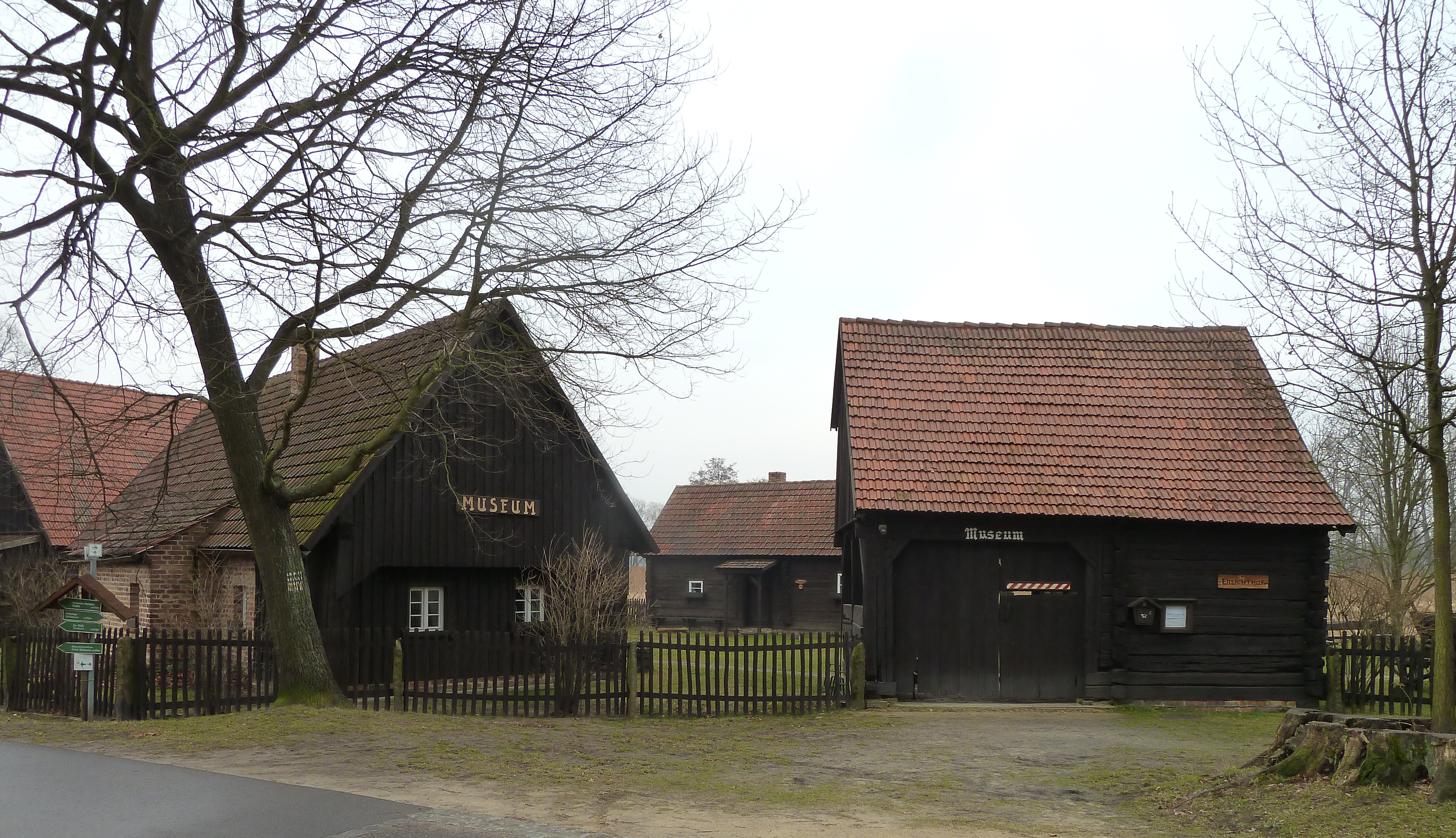 The Erlichthof in Rietschen was the first relocated farm of the Erlichthofsiedlung. It was originally located in Mocholz No. 31.